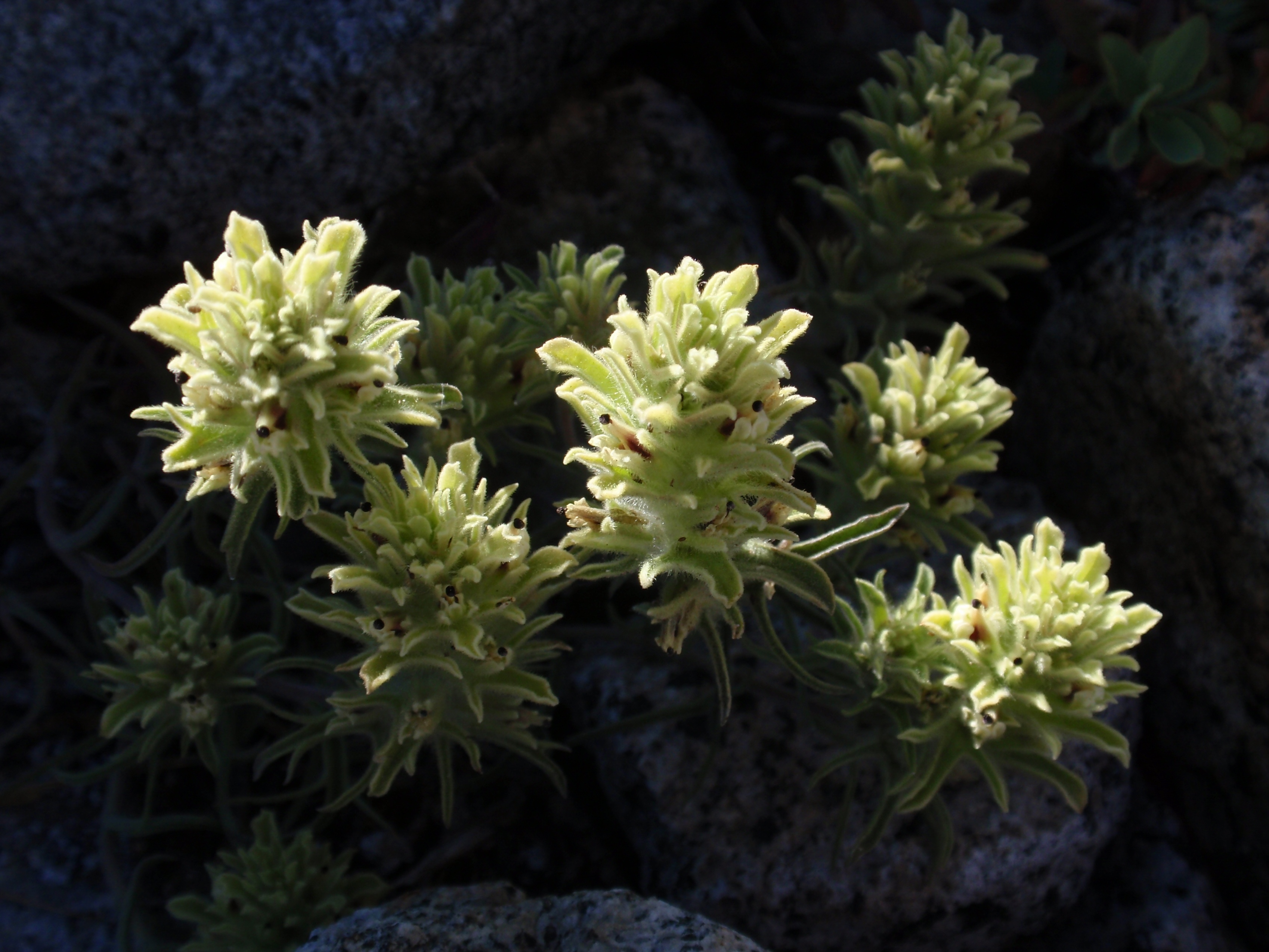 Castilleja nana at Ottoway Lakes, Yosemite, California, USA.